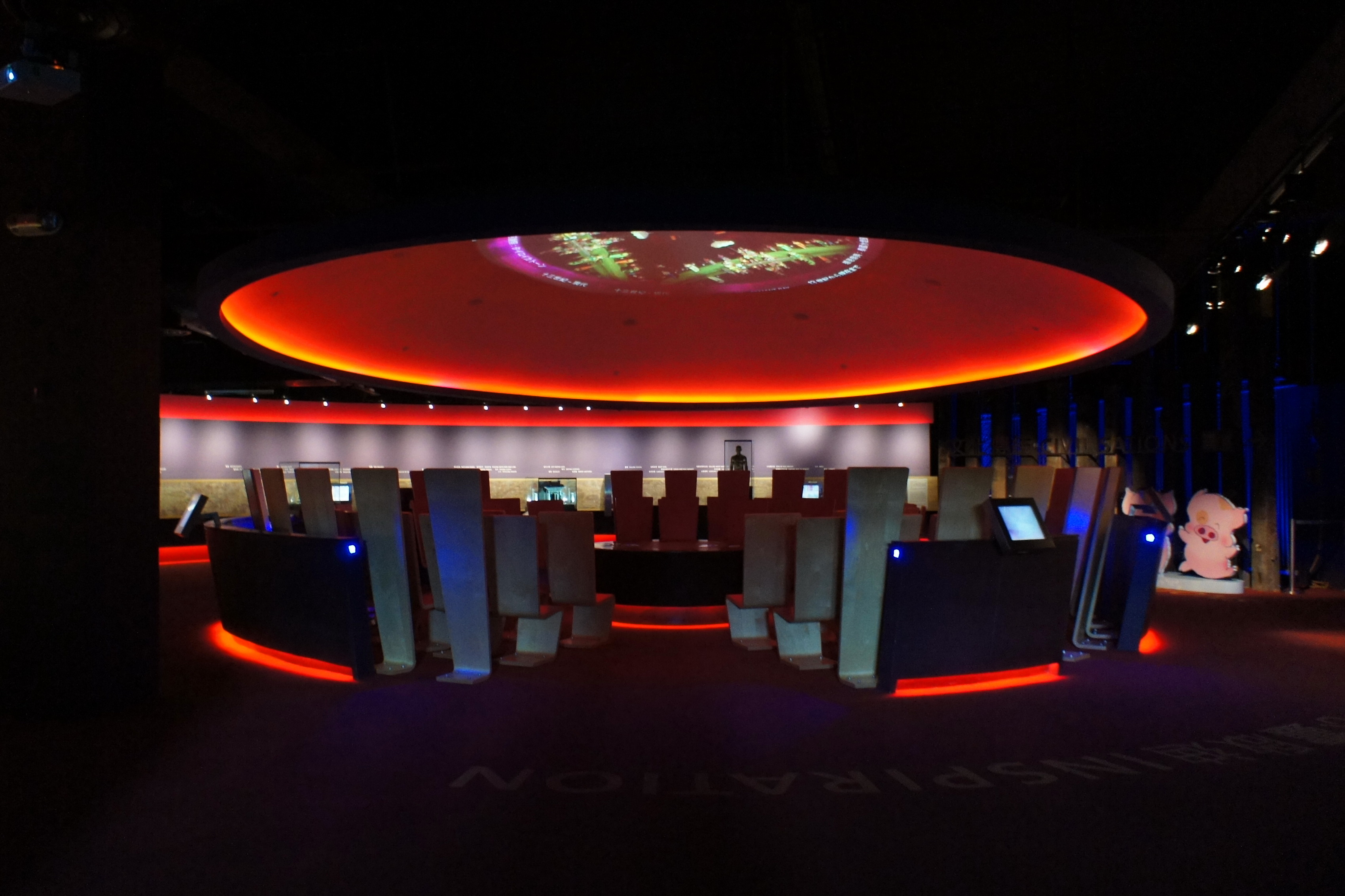 Human Culture, Visitor Centre - Wetland Interactive World, Hong Kong Wetland Park, Yuen Long, Hong Kong.